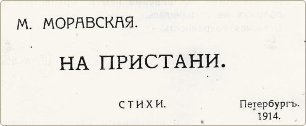 "Na pristani' (On a Pier), a book written by Maria Moravskaya in 1914